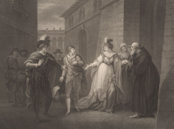 SHAKSPEARE. Twelfth Night. ACT V. SCENE I. The Street. Duke, Viola, Antonio, Officer's, Olivia, Priest & Attendants.